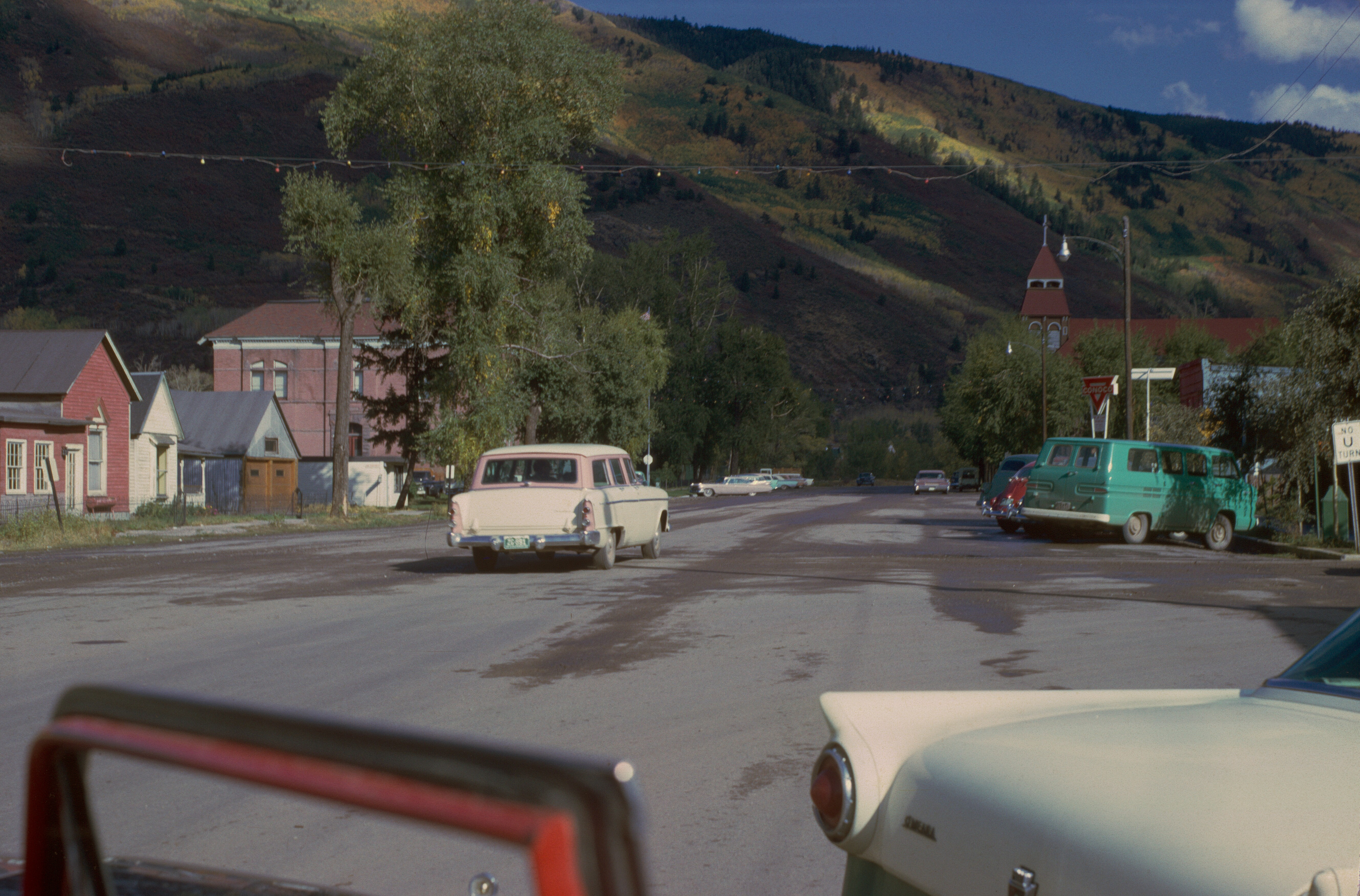 Other images by this contributor